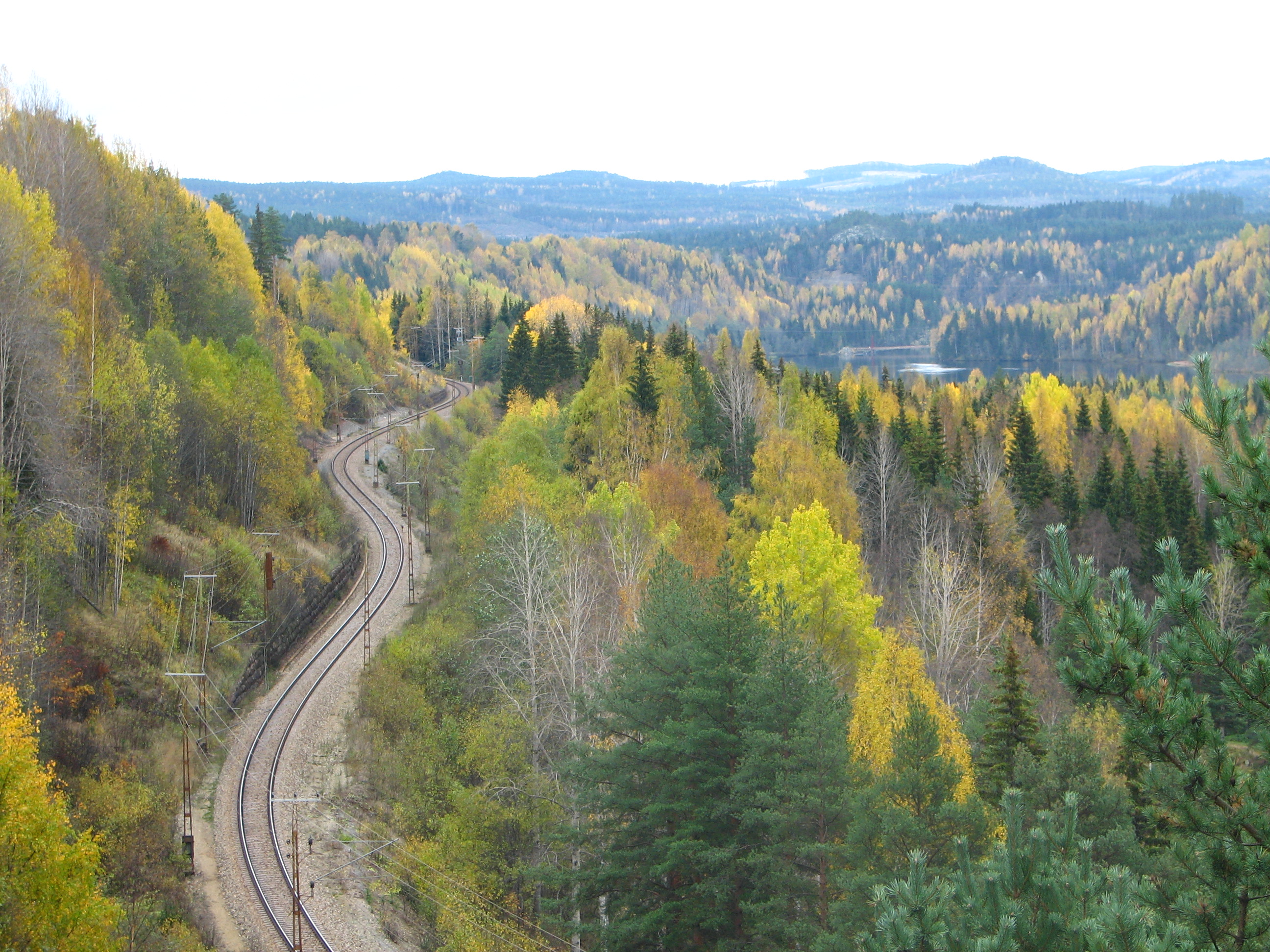 Main railway line through upper Norrland at Hammarstrand in Sweden